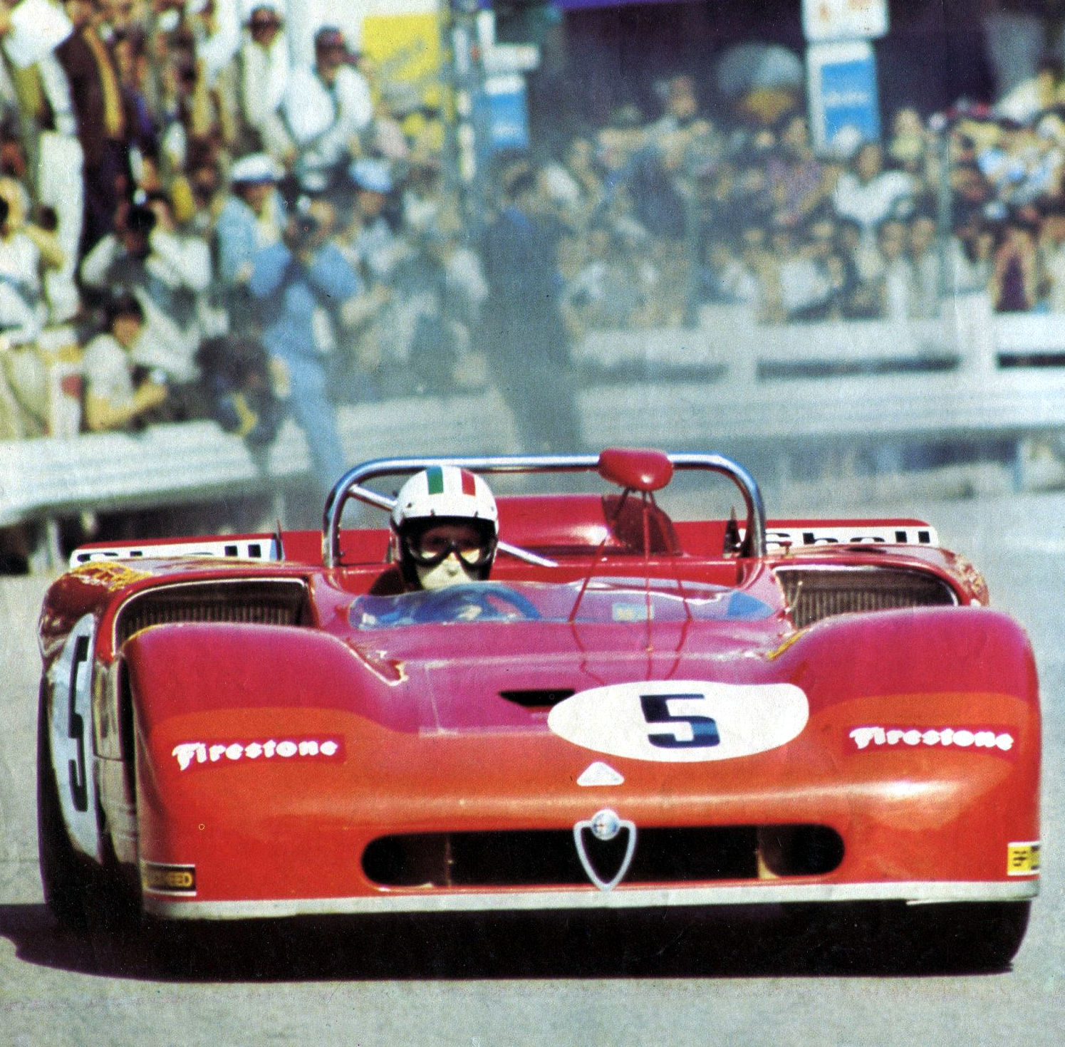 Province of Palermo (Sicily, Italy), "Piccolo Madonie" road circuit, May 16, 1971. Italian motor racing driver Nino Vaccarella on #5 Alfa Romeo 33/3 (Prototype 3-litre category) of Autodelta S.p.A., sponsored Royal Dutch Shell, at the victorious 1971 Targa Florio.